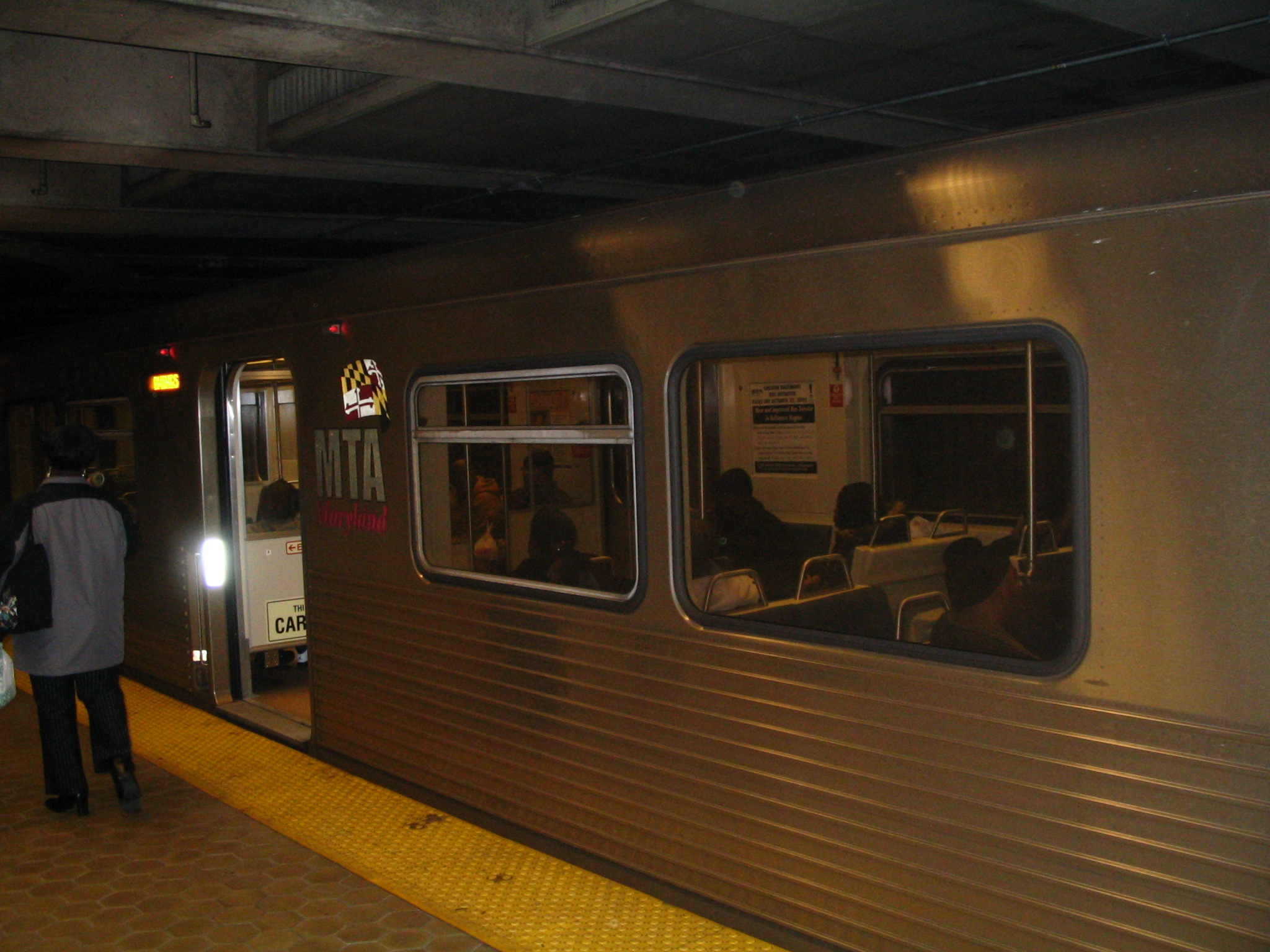 Westbound Baltimore Metro Subway vehicle at State Center station. Photo taken by User:Jfruh and released into the public domain.